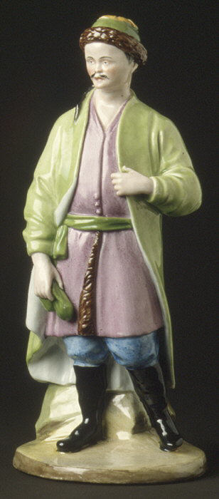 Russian, St. Petersburg; Figure; Ceramics-Porcelain